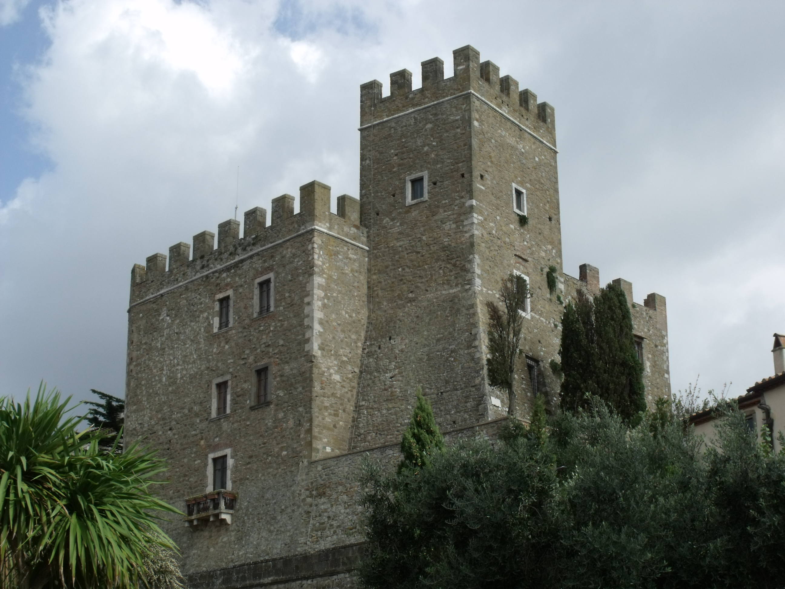 Rocca and Town hall of Manciano, Maremma, Province of Grosseto, Tuscany, Italy